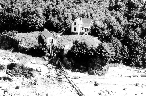 Public Domain statement here; The Point Sherman Light was a lighthouse located 38 miles north of Juneau, Alaska, along the east side of Lynn Canal, eight miles south of Eldred Rock Light. It is no longer standing.